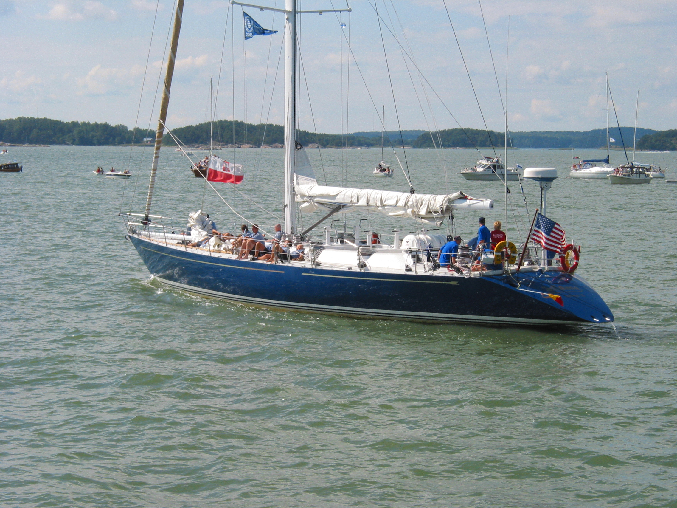 Sailing yacht Julianna - seen here participating in the Cutty Sark Tall Ships' Races 2003. The ensign on the stern is that of the USA, the one above the foredeck is that of Poland. The photograph was almost certainly taken in the port of Turku in Finland - departure date was 3rd.August 2003 - destination port was Riga in Latvia.